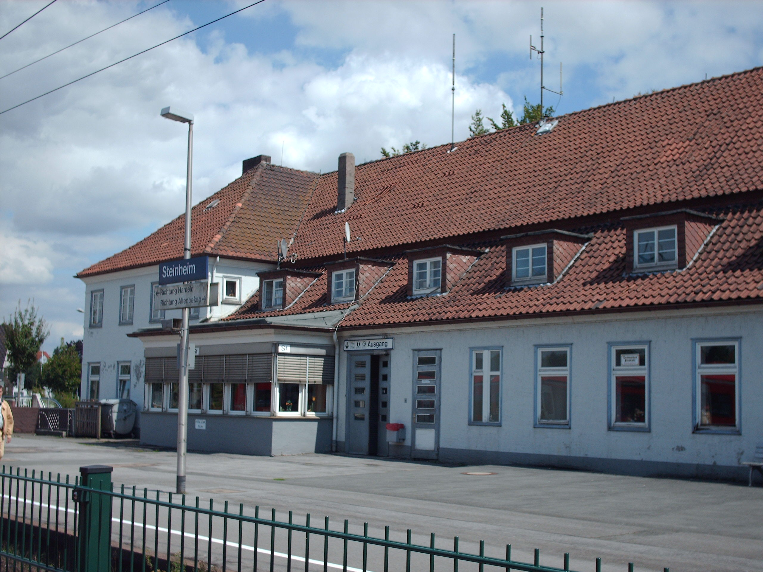 Steinheim (Westf) station, Steinheim, Westphalia, Germany check usage